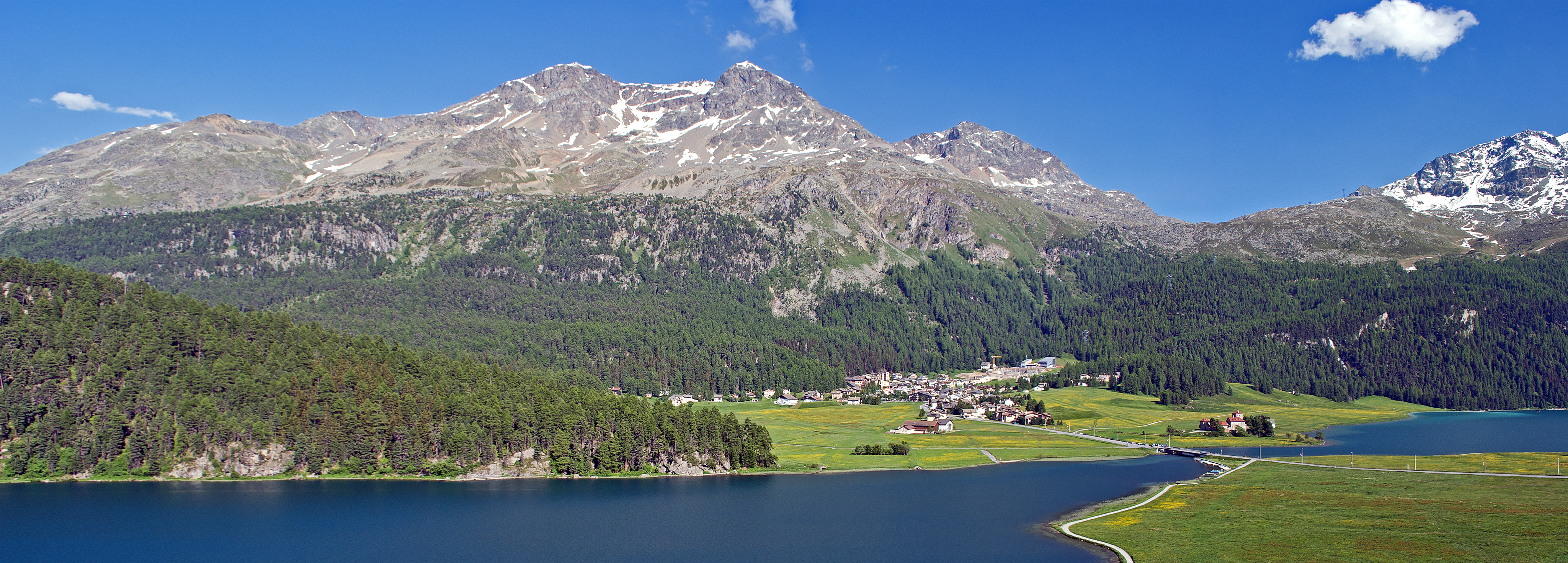 Silvaplana-Surlej, 1,815 meters (5,955 ft), is a hamlet of Silvaplana in Engadin/Switzerland. The image also shows the surrounding lakes Lej da Champfèr and Lej da Silvaplana and some of the nearby mountains from the Bernina range. The village contains the Corvatsch cablecar bottom station.